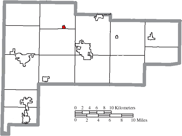 Map of the municipal and township boundaries of Auglaize County, Ohio, United States, as of the 2000 census, with the location of the village of Buckland highlighted. Township borders are shown only in unincorporated areas in order to differentiate incorporated and unincorporated areas more clearly.